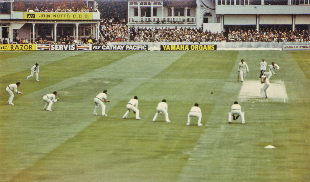 David Gower batting. Trent Bridge Test match, 1981. Terry Alderman is bowling, with Ian Botham at the other end. There are four slips and two gulleys fielding to the left of Rodney Marsh. Trent Bridge Test Match, 1981: Alderman to Gower. With Australia well on top on the Saturday of the First Test, Terry Alderman bowls to David Gower and an expectant ring of four slips and two gulleys to the left of wicket-keeper Rodney Marsh. The non-striker is the England captain, Ian Botham, who later top-scored with 33. Play was abandoned for the day with England 94-6. This is the view from the top of the old concrete double-deck Radcliffe Road End, looking towards the Pavilion and, on the left, the Ladies' Pavilion, which was replaced by the Hound Road Stand.